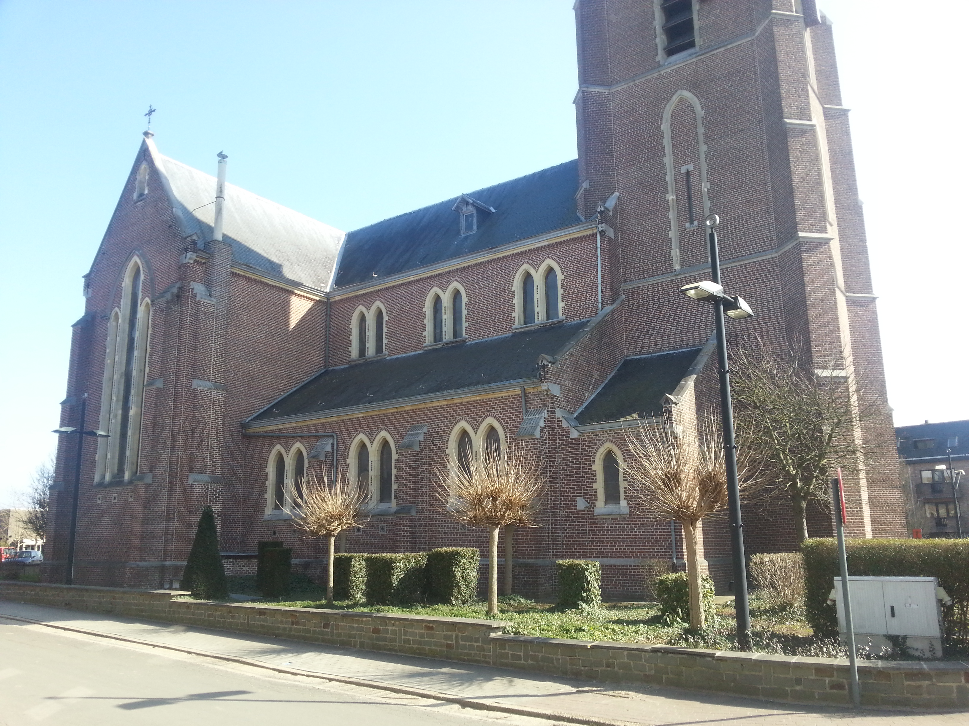 Side view of the St. Gertrude Church in Beverst